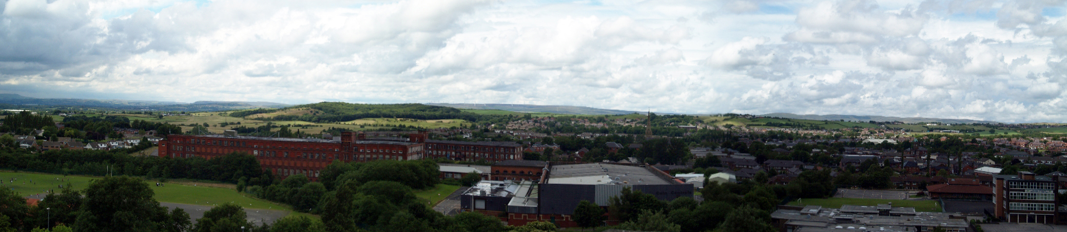 View from St Annes Church tower Royton, Oldham